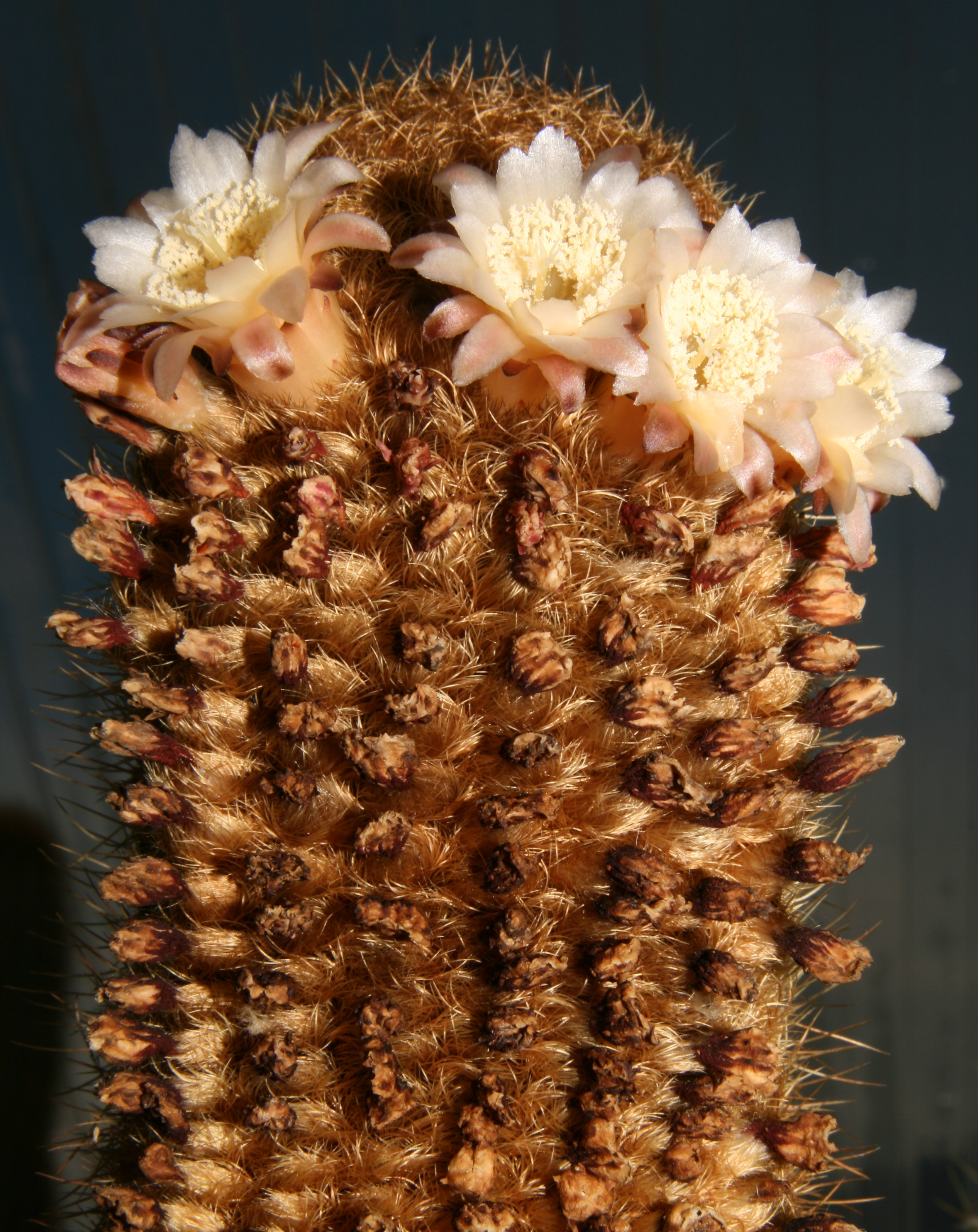 flowering plant from type locality, W Minas Gerais, Brasil